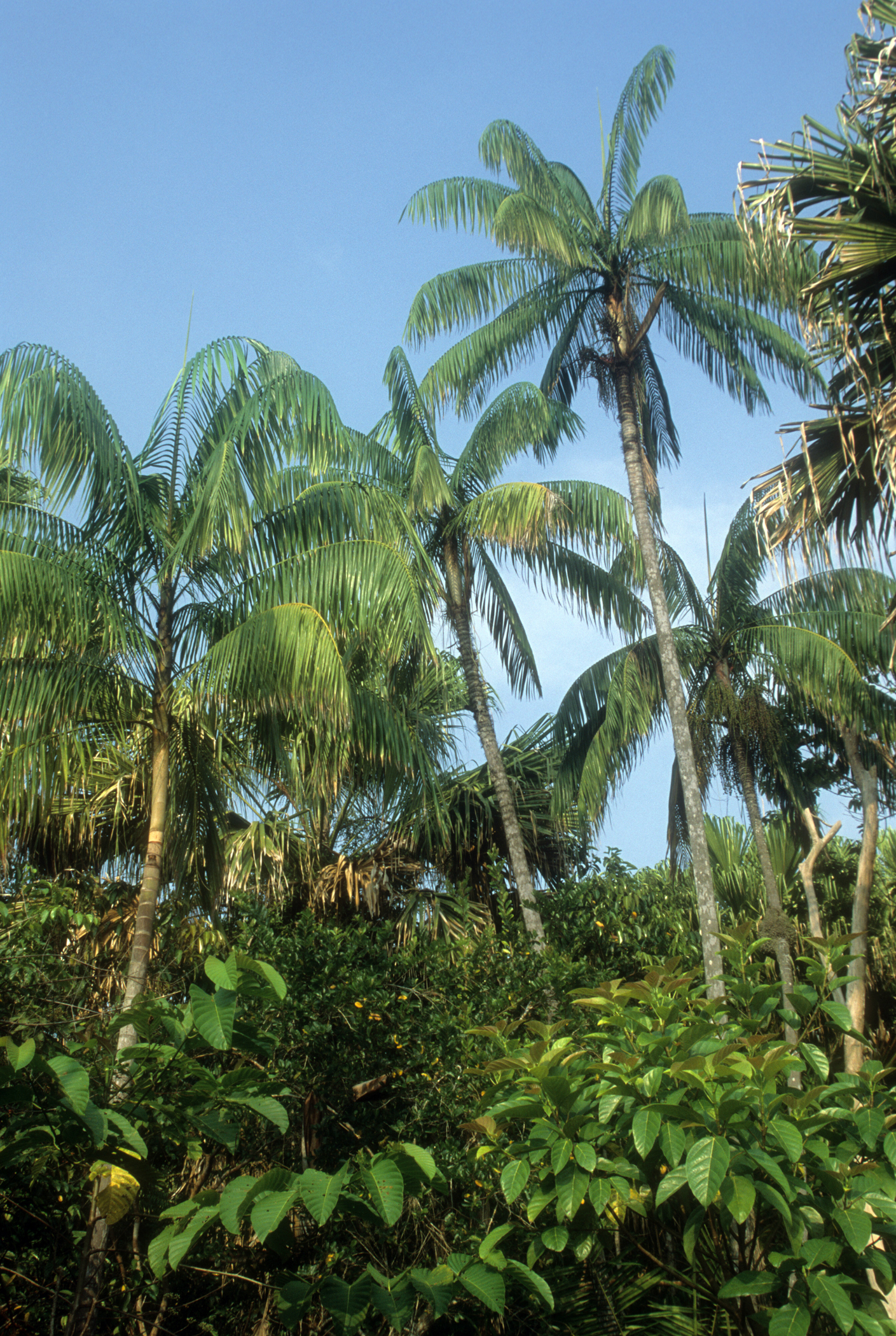 Oncosperma tigillarium, South of Kemaman, Teregganu, Malaysia. Oct. 2002. Livastona saribus in the background.